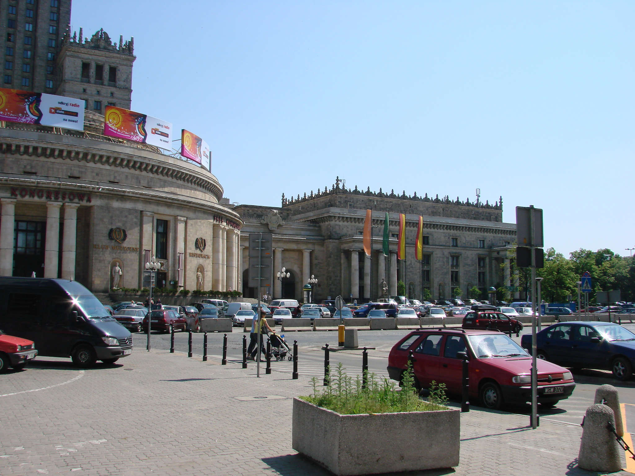 Emilii Plater Street in Warsaw